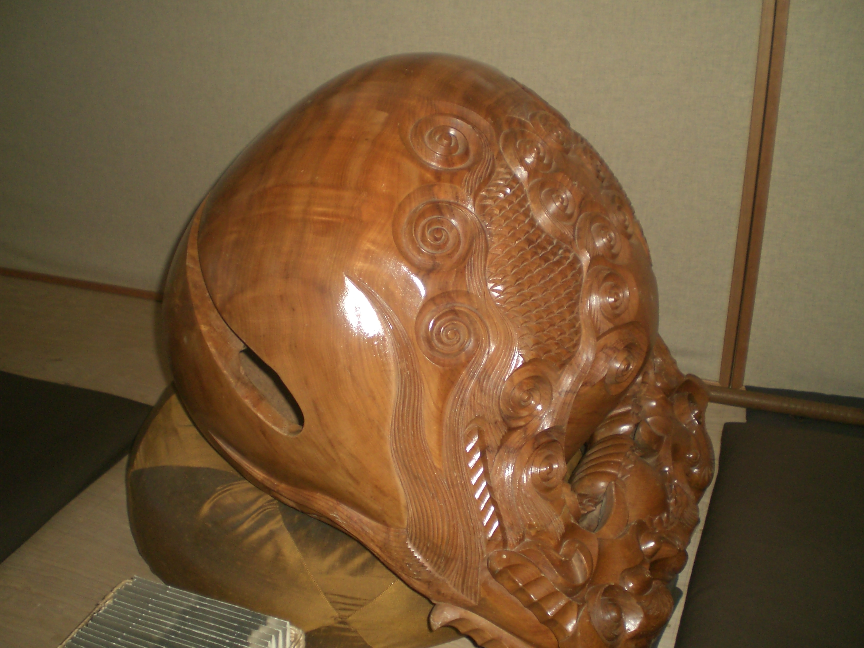 Huge Mokugyō drum at the new Chapin Mill Zen Buddhist Retreat center. Over 3 foot wide.